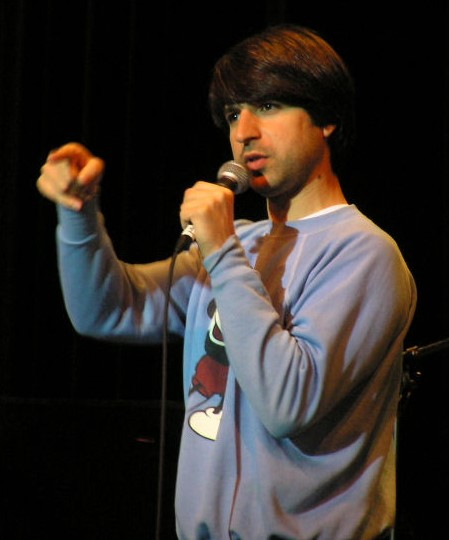 Demetri Martin at Northeastern University